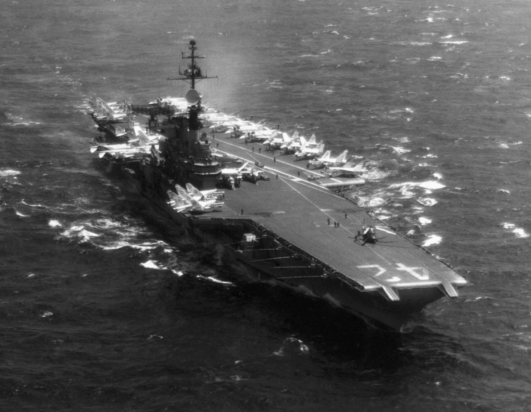 The U.S. Navy aircraft carrier USS Franklin D. Roosevelt (CVA-42) underway. Franklin D. Roosevelt, with assigned Attack Carrier Air Wing 6 (CVW-6), was deployed to the Mediterranean Sea from 29 January to 28 July 1971. This was the only deployment on which Kaman HH-2D Seasprites of Helicopter Combat Support Squadron 2 (HC-2) Det.42 were assigned to CVW-6. One HH-2D is visible on the forward part of the flight deck.